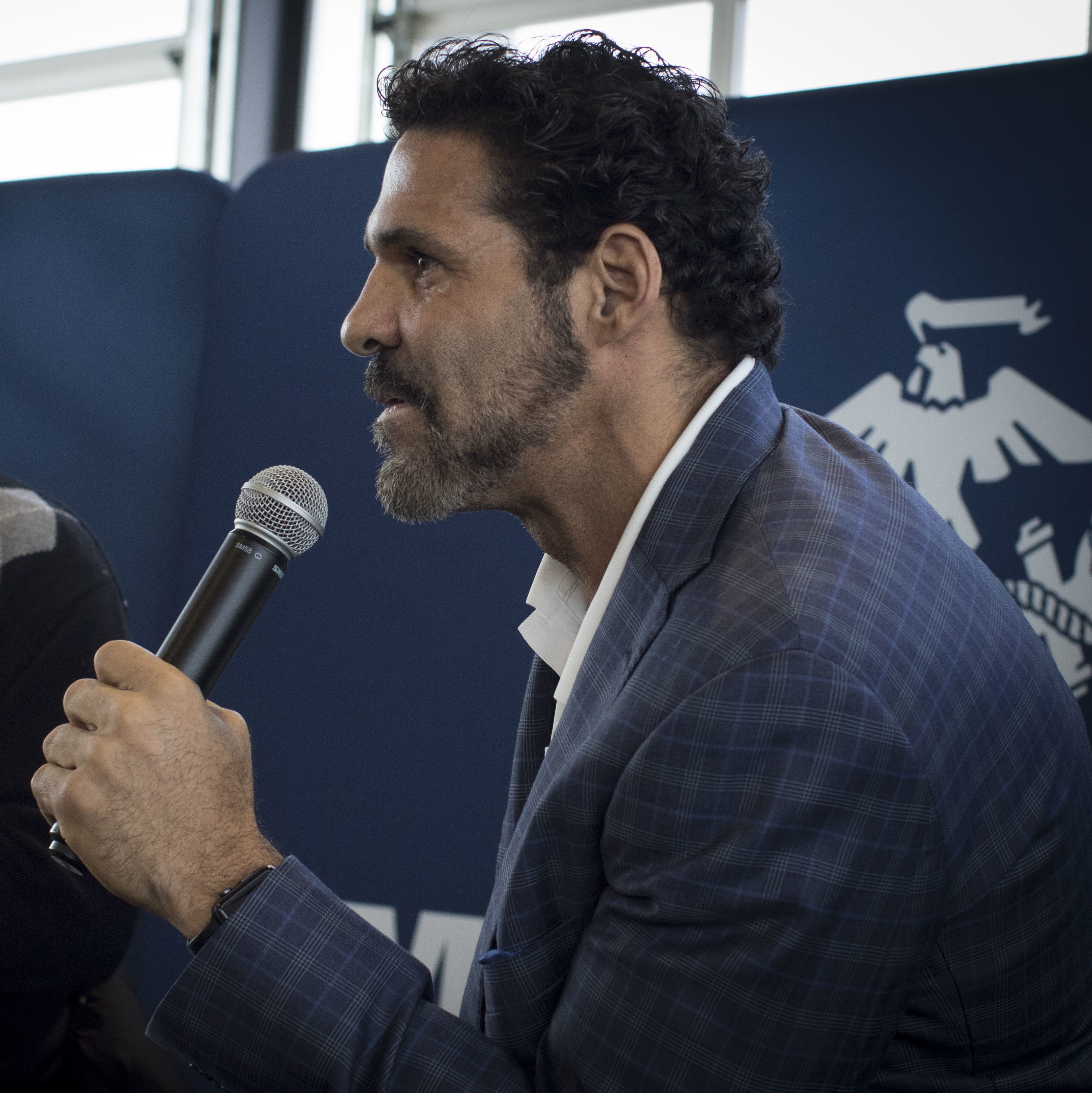 Jim Hunter, Voice of the Baltimore Orioles, and Michael McCrary, a 2001 Baltimore Ravens Super Bowl champion, share personal stories with high school students about overcoming adversity during the Charm City Day of Service, Dec.16, 2017, in Baltimore. The Charm City Day of Service is an outreach program in which the Marine Corps partners with local business and corporations to revitalize portions of Baltimore and teach Baltimore City youth about selfless service and community involvement.